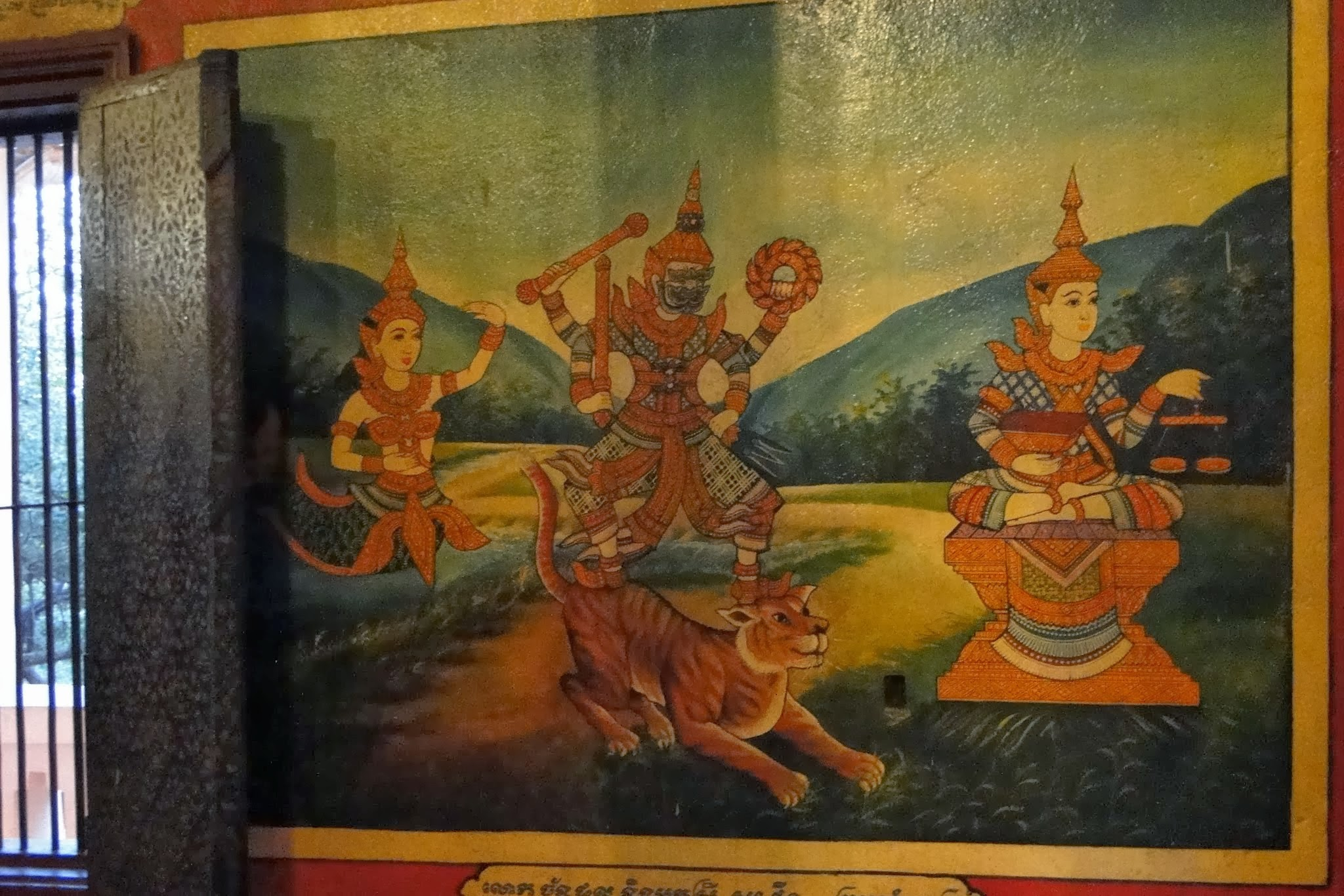 Mythological scenes on the wall of the temple